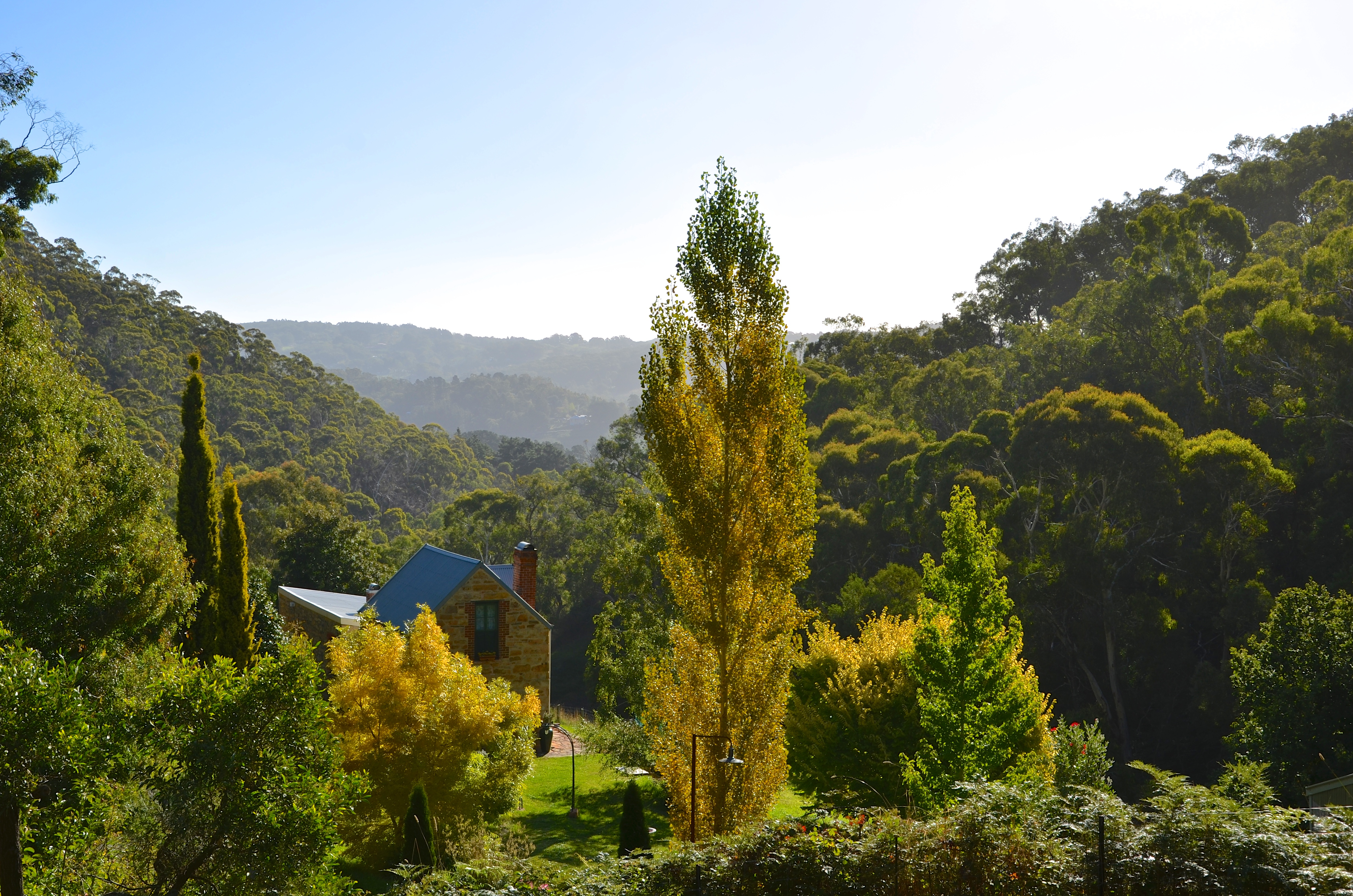 Cottage and autumn leaves typical of the Adelaide Hills. Taken from near Forest Range, South Australia. View through the valley is to Basket Range, up to Marble Hill on the ridgeline.